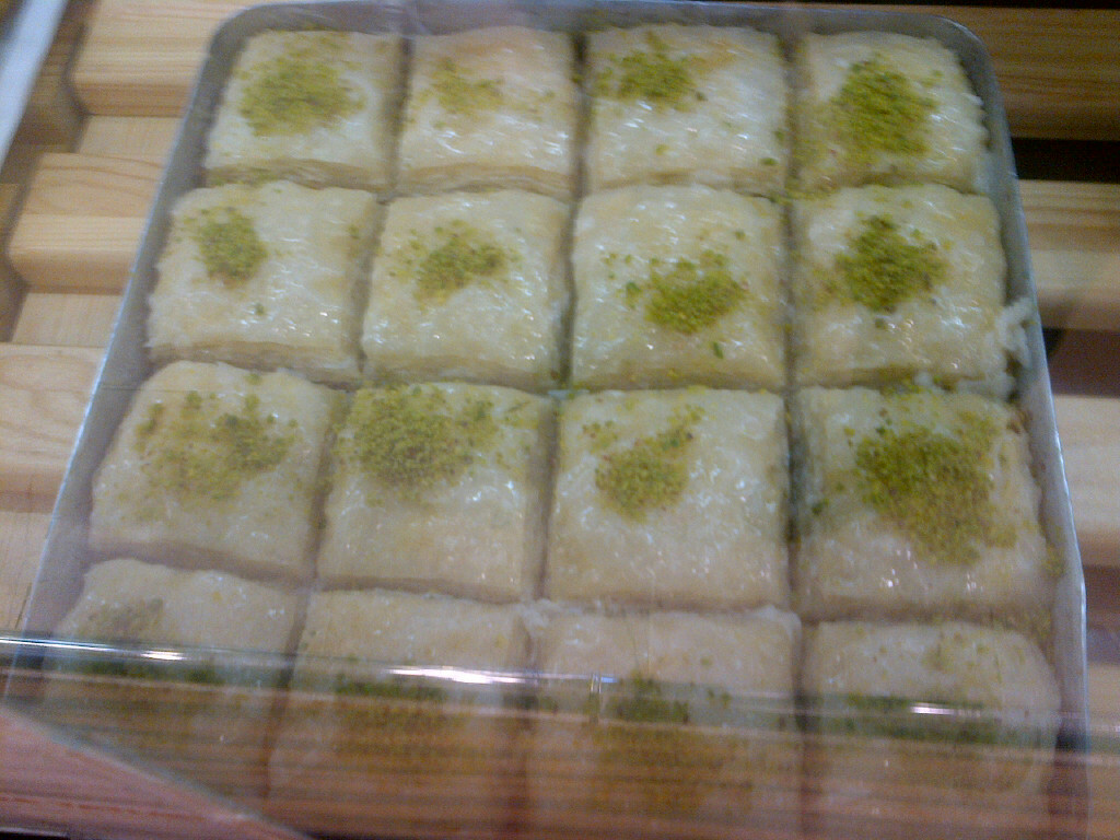 A tray of "nuriye" sweets from Turkey